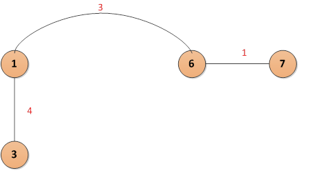 Đồ thị W2 sinh ra từ G